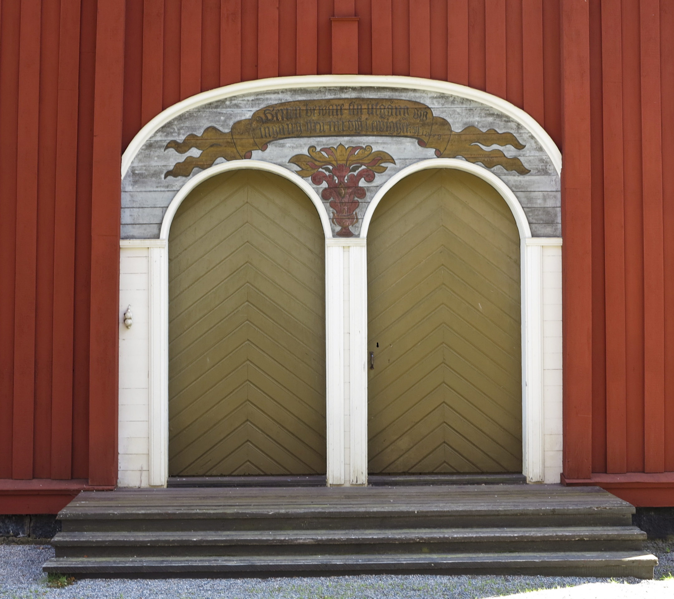 Kalix church, Norrbotten, Sweden